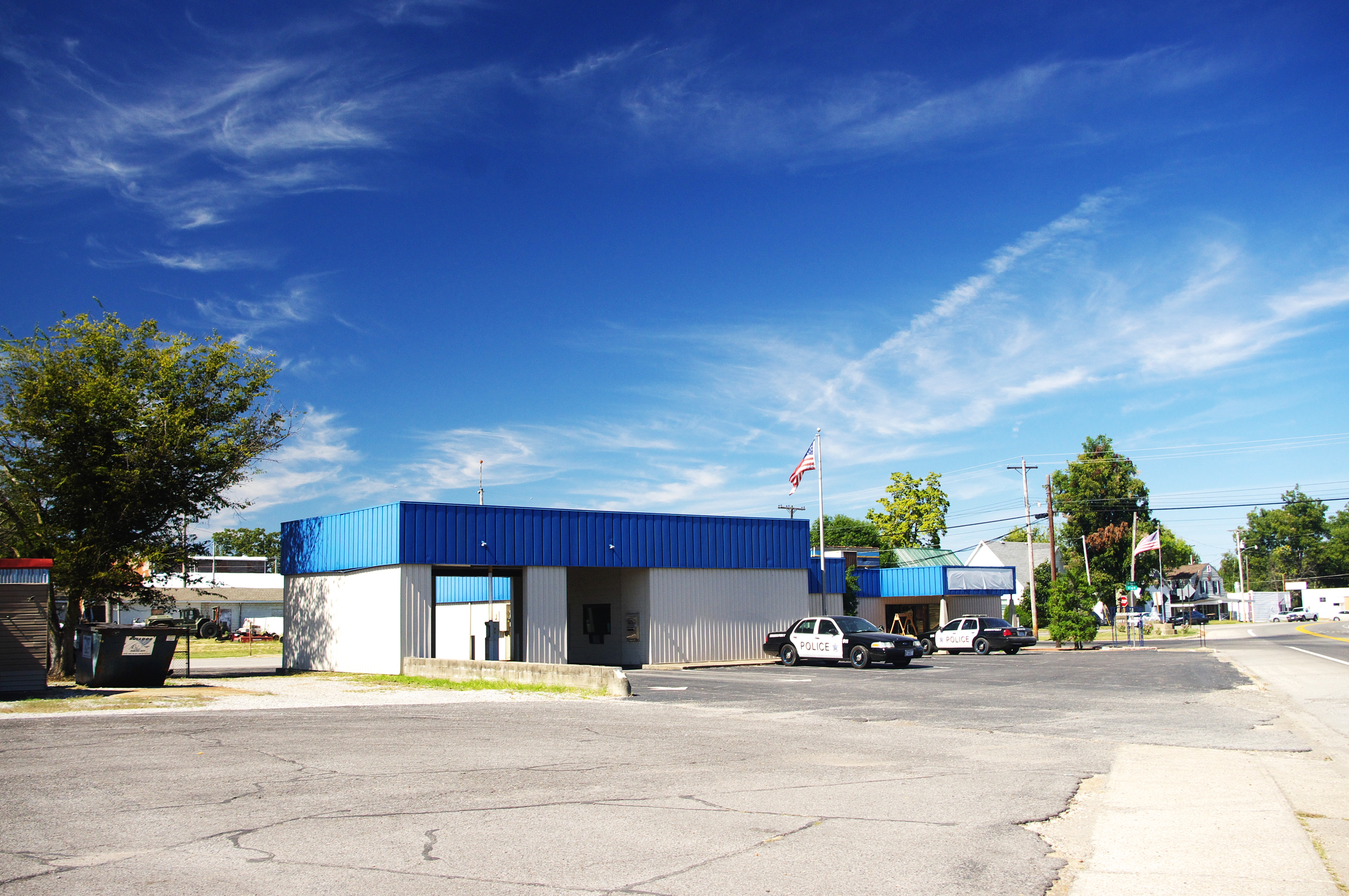 City Hall and police department in Brookport, Illinois, United States.